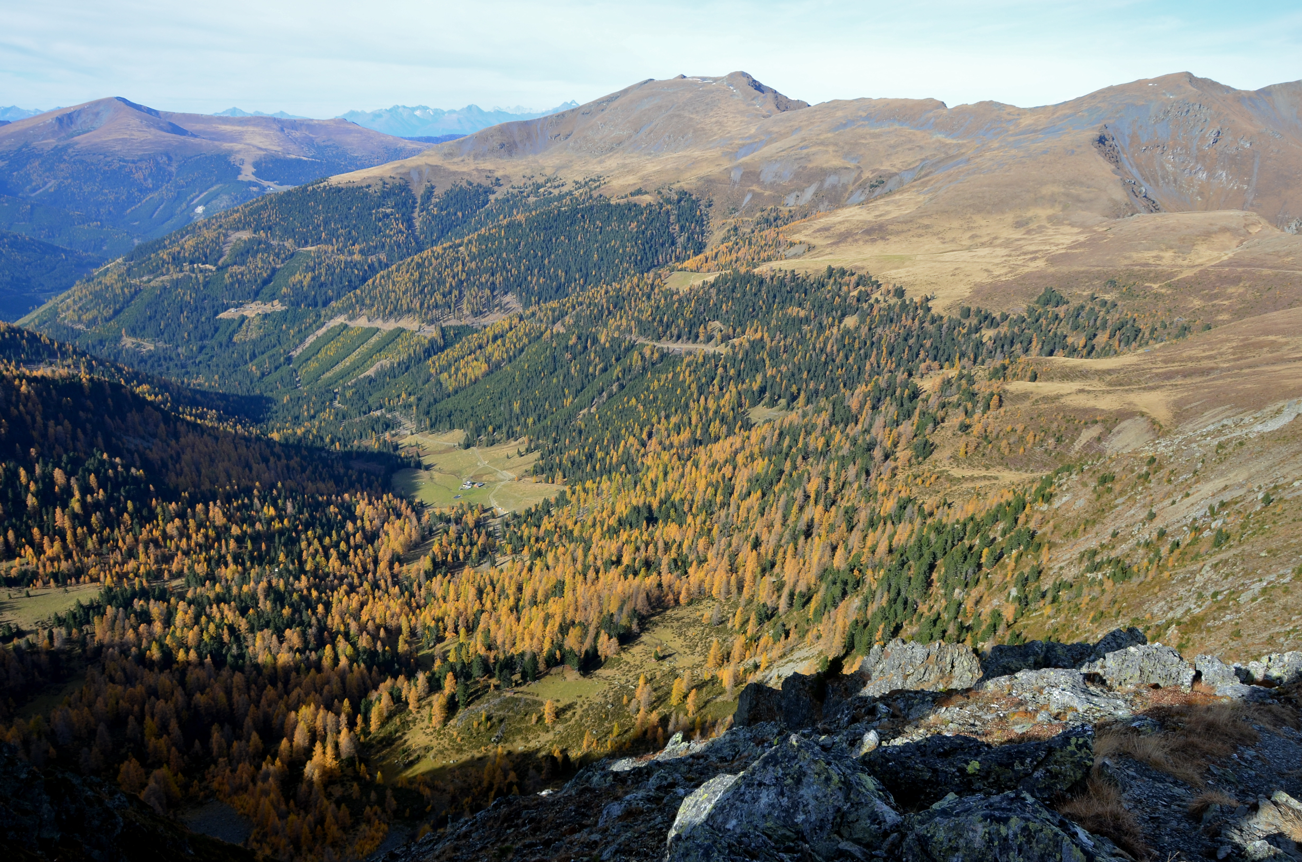 View from the Bretthoehe (2320 m) at the mountains Eisenhut (2441 m) and Wintertalernock (2394 m), part of the Nockberge at Turrach, municipality Predlitz-Turrach, district Murau, Styria / Austria / EU